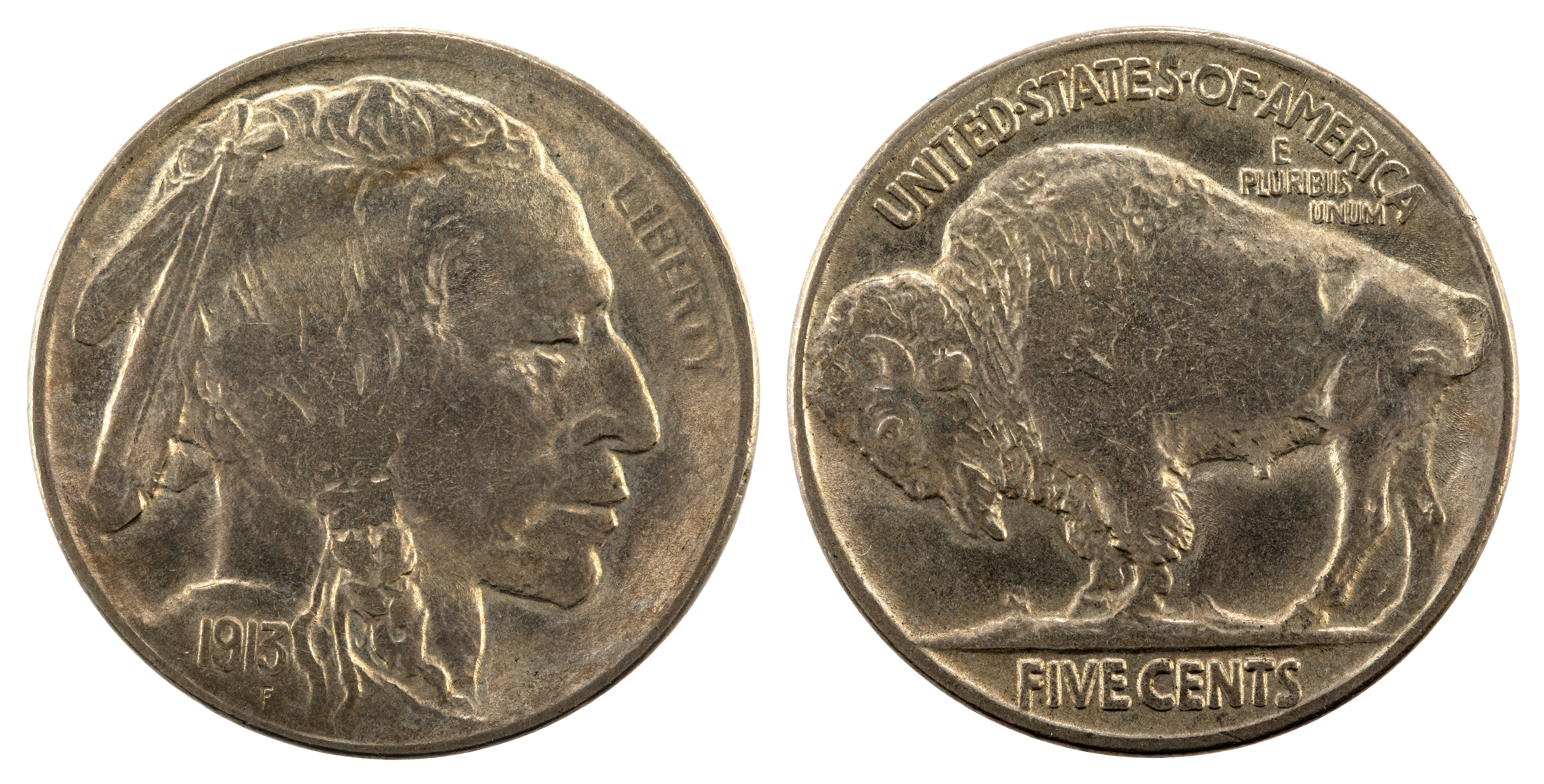 1913-5C-Buffalo Nickel (TyII-line), Copper-Nickel, 21.2mm, 5.0g, designed by James Earle FraserJN2015-6588-89